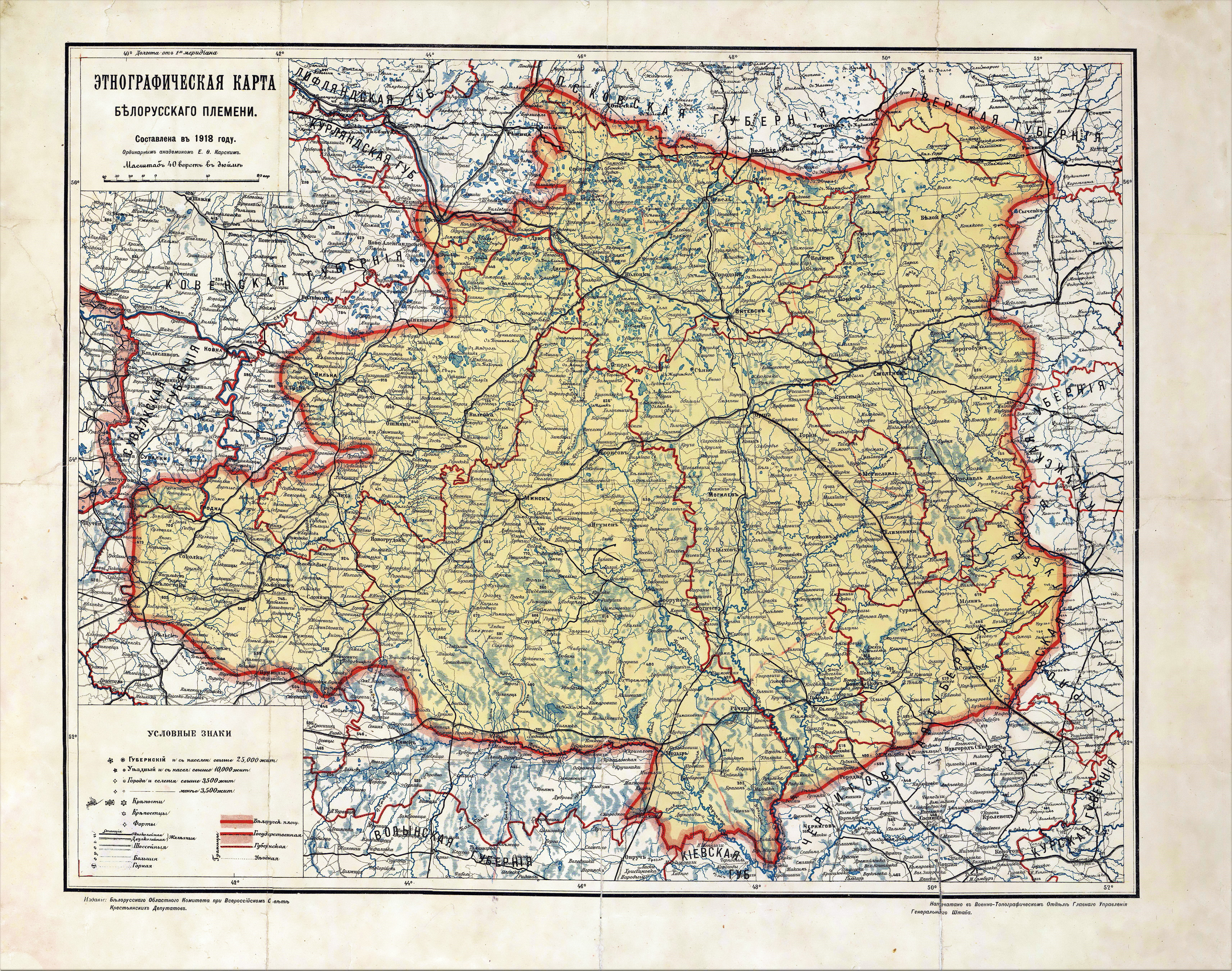 Ethnographical map of Belarusian tribe, created by E. Karsky, 1918 edition